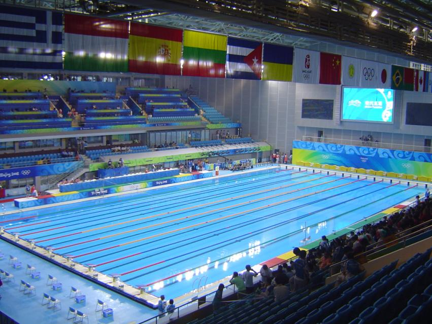 The Ying Tung Natatorium prepared for the swimming of the Modern pentathlon at the 2008 Summer Olympics.